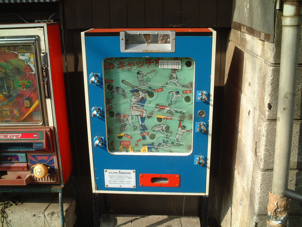 "Catch ball" (Arcade game), taken in Nerima, Tokyo, Japan